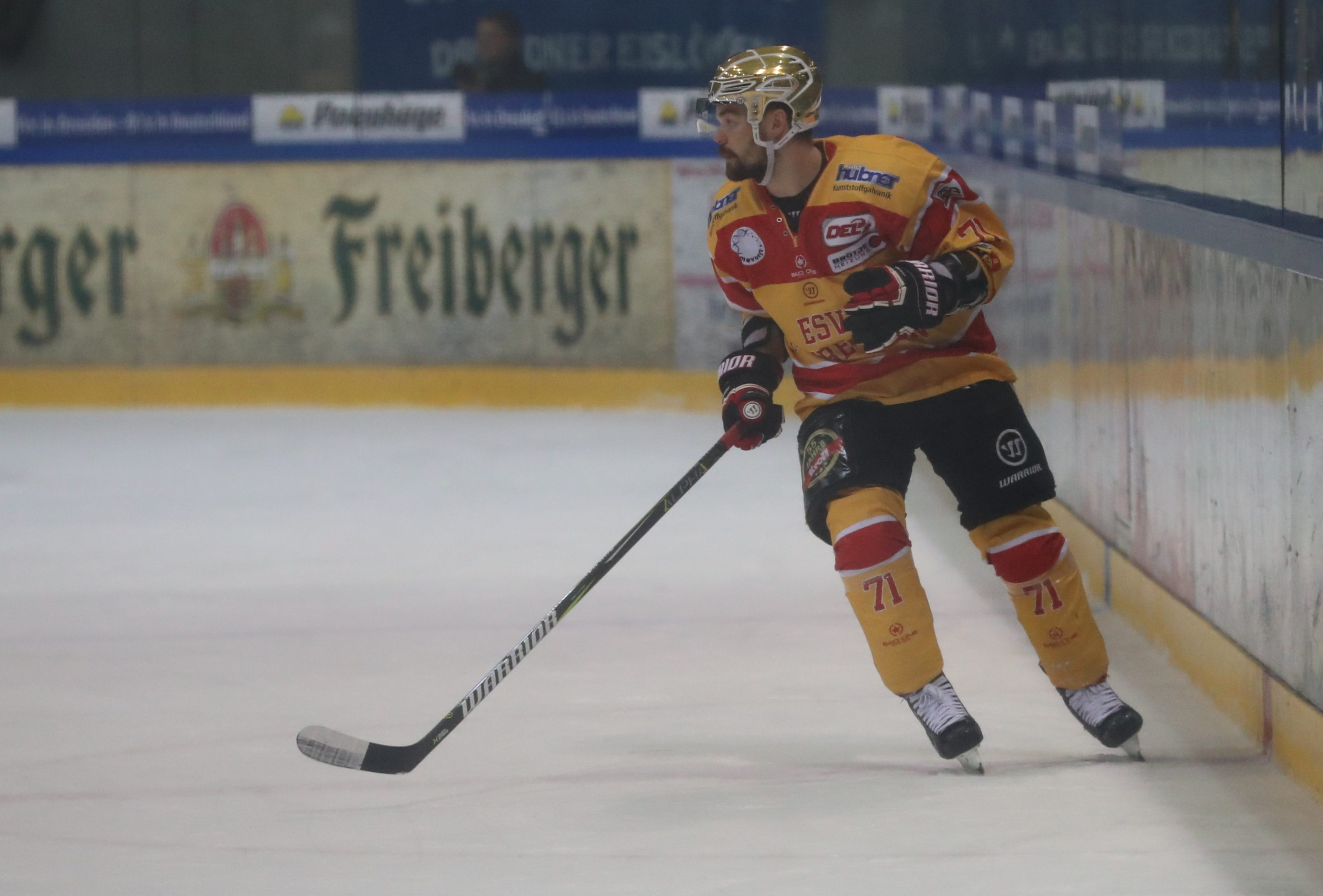 DEL2, Season 2018/19, Main round, 36th match day: Dresdner Eislöwen vs. ESV Kaufbeuren 6:3 (3:1; 1:2; 2:0)